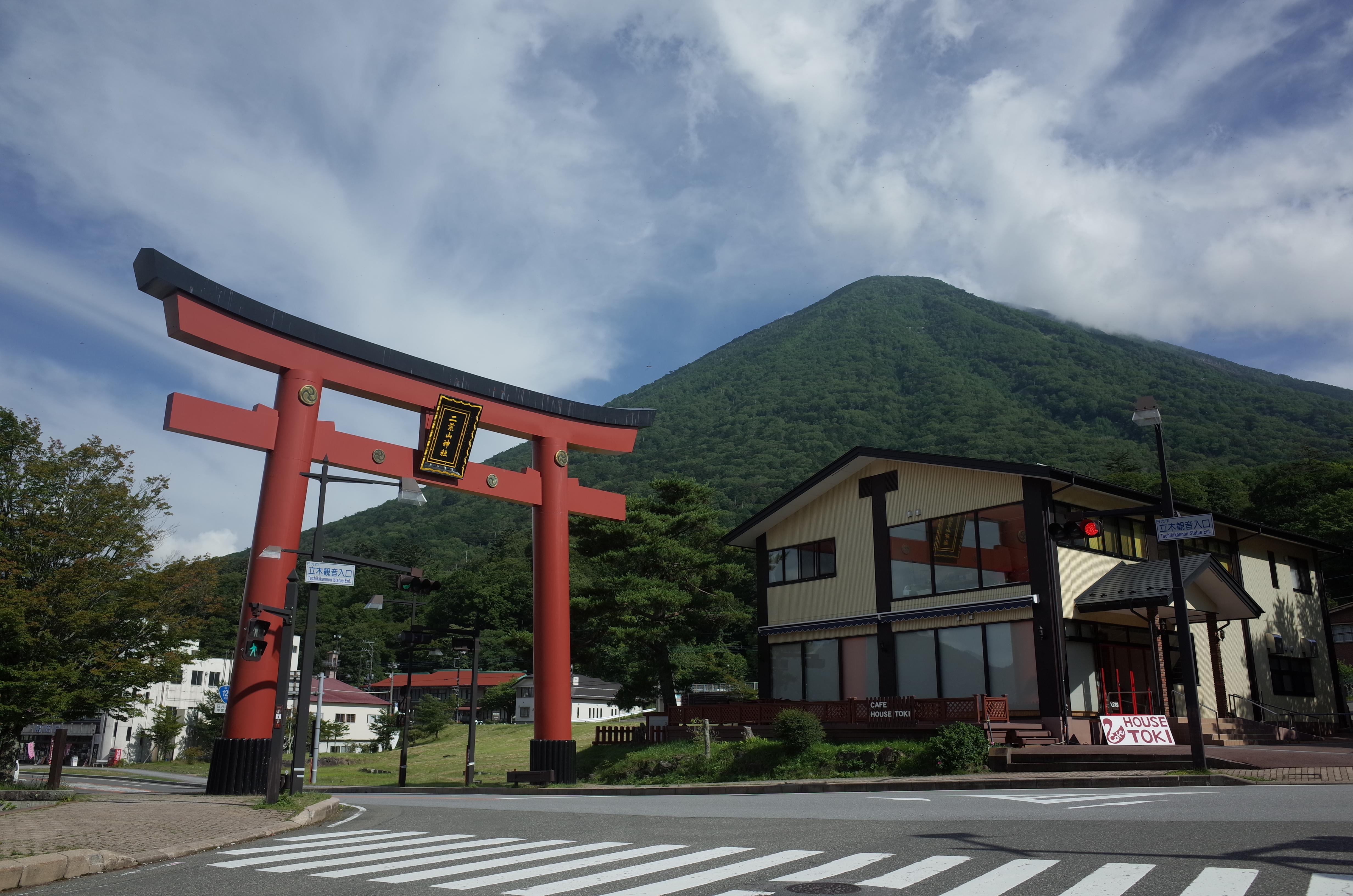 Japan: the Nantai volcano and the Futarasan chūgūshi's torii in Nikkō (Tochigi prefecture).